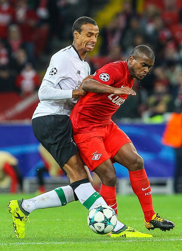 Fernando Lucas Martins, Joel Matip